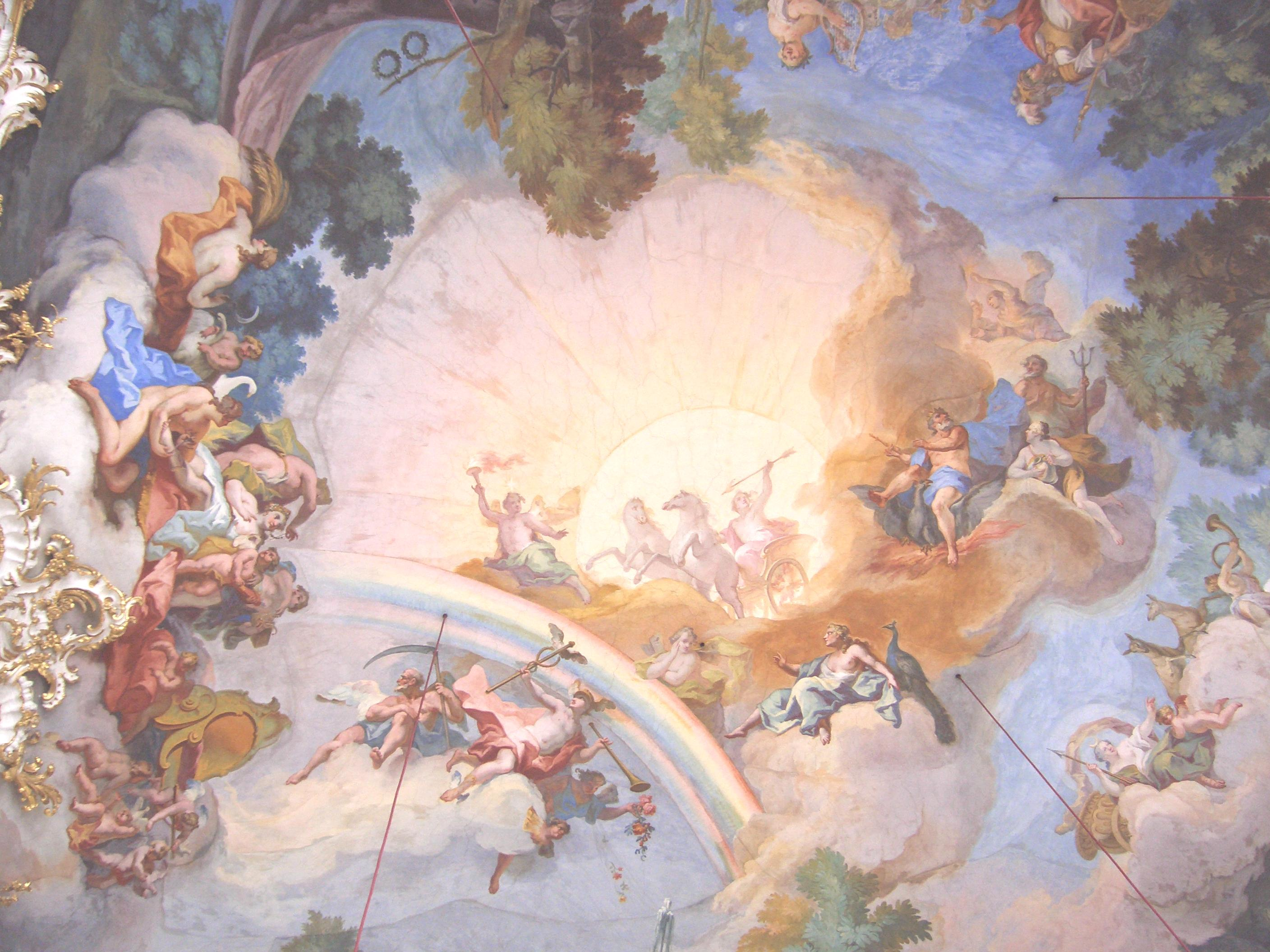 Ceiling Fresco at Nymphenburg Palace, Munich Painted by Johann Baptist Zimmermann, late 17th Century